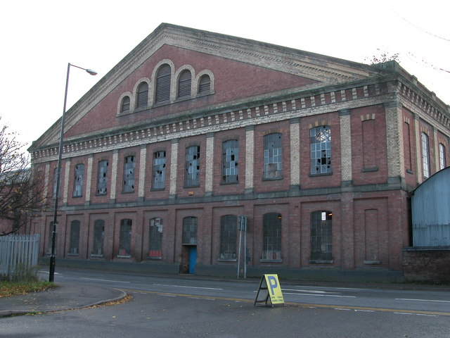 The Great Filling Hall, Pheasant Street, Worcester This huge Victorian industrial building has remained unused for a number of years. It was built in the 1850s by Hill, Evans & Co, producers of vinegar. The company closed in 1965 and in subsequent years the building was used by a number of small companies. The site upon which the building stands is now awaiting redevelopment. For more information